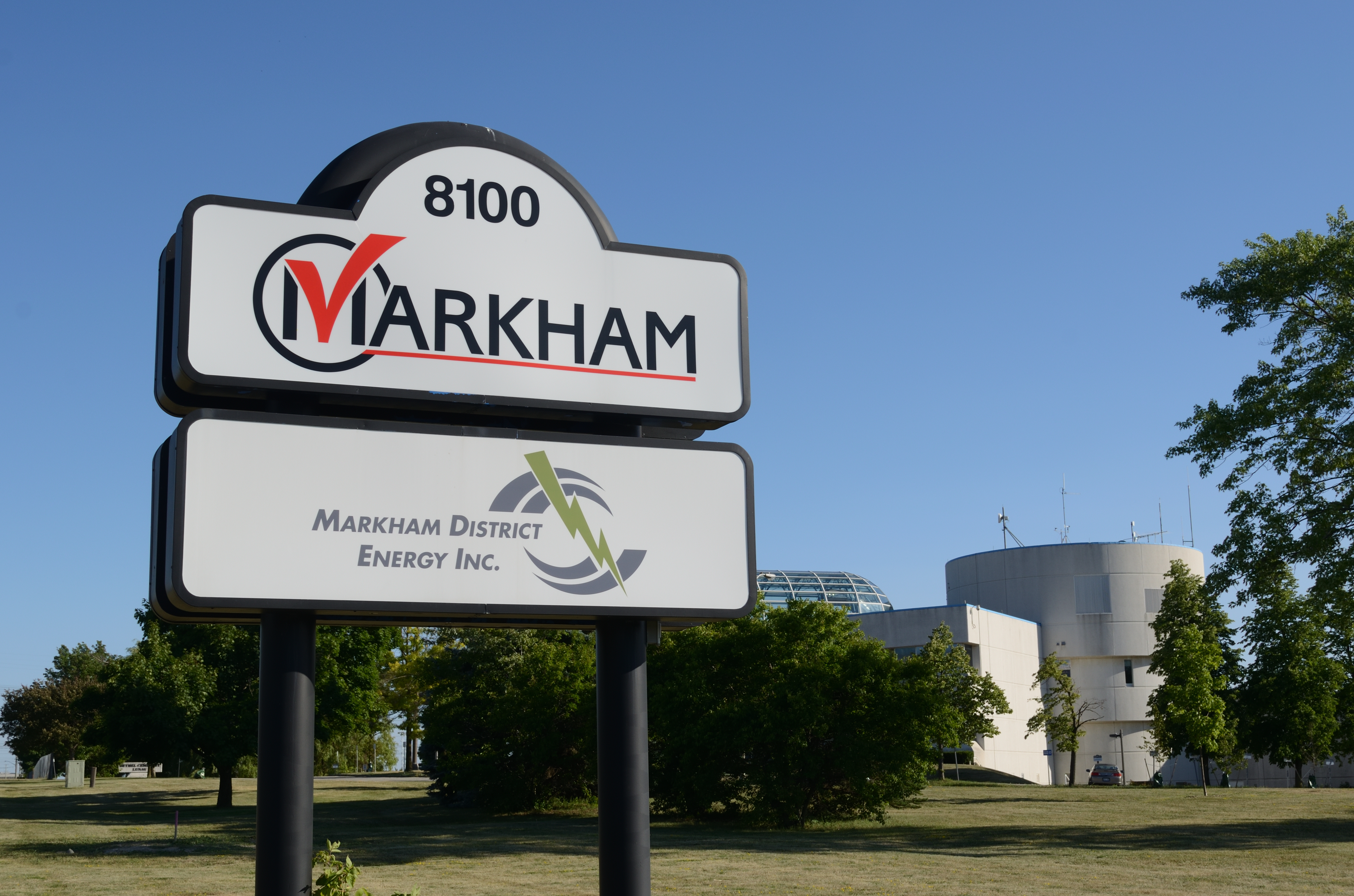 Markham District Energy - Warden Energy Centre